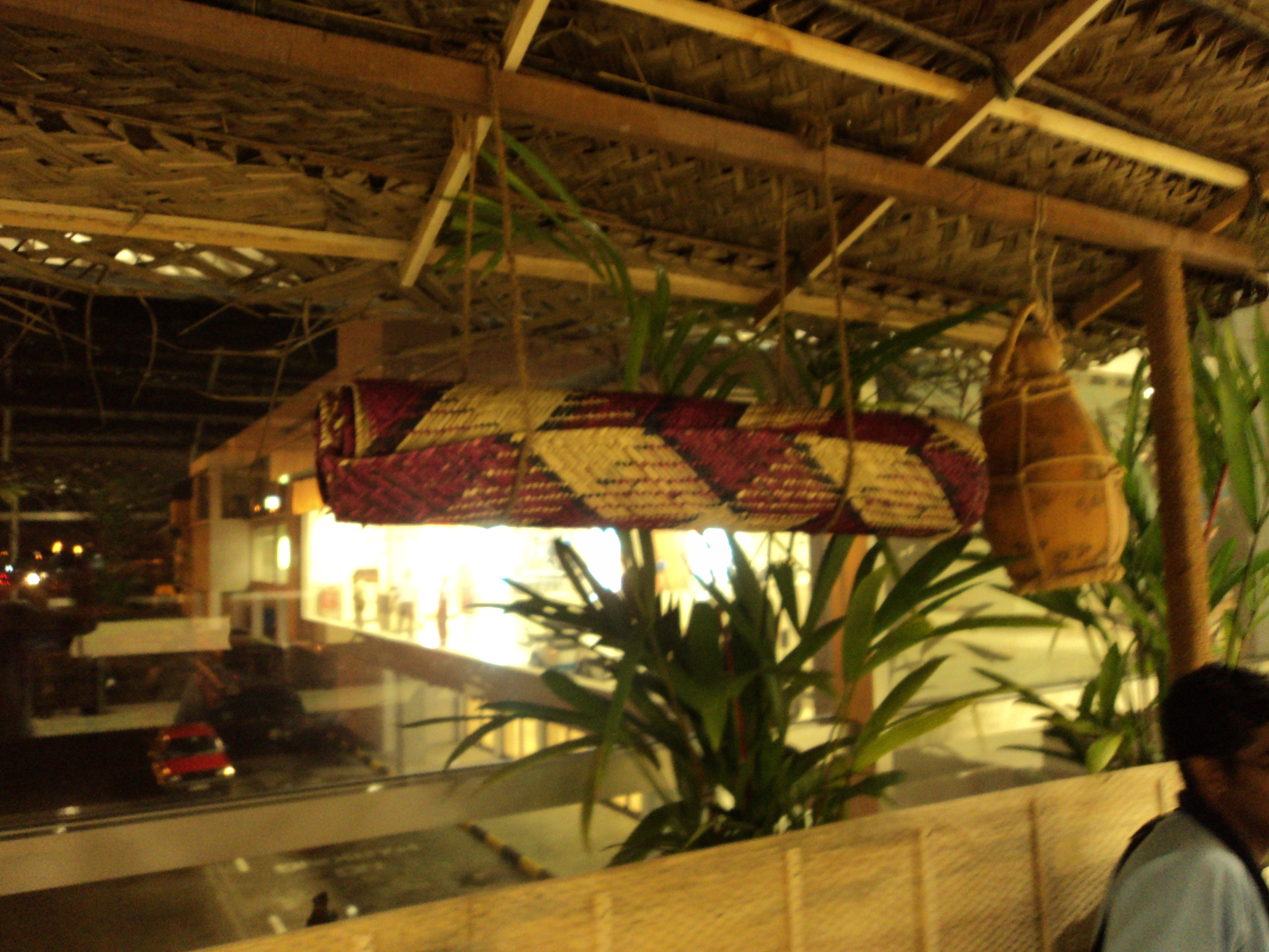 Traditional set up for keeping pots and mats. This setup was displayed in the Katunayaka, International Airport, SriLanka